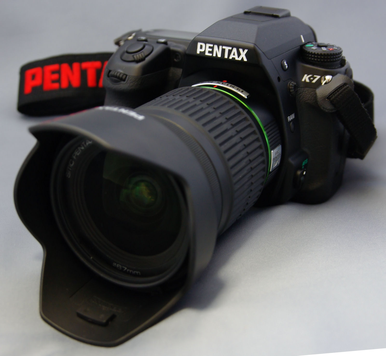 PENTAX K-7 with smc DA 16-45mm 1:4,0 ED AL